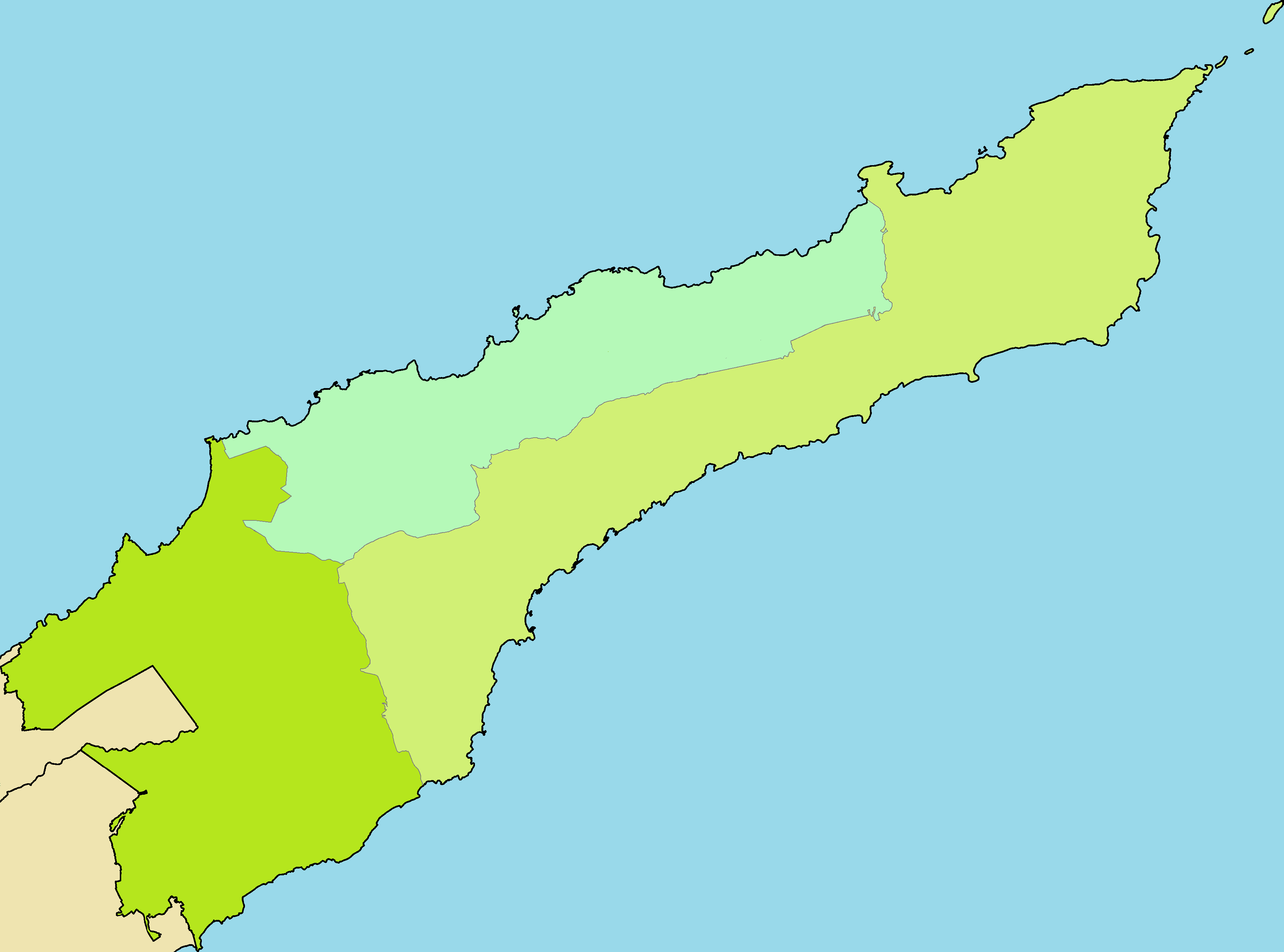 Rizokarpaso with quarters (de jure).